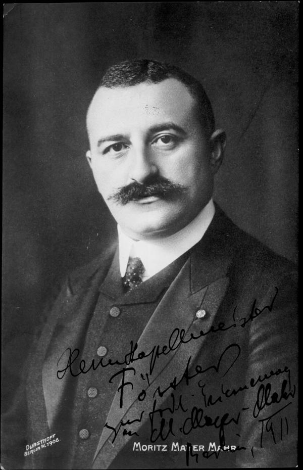 The postcard with a portrait of German pianist Moritz Mayer-Mahr (1869—1947), published in 1908 by Verlag Hans Dursthoff Berlin and signed by the musician